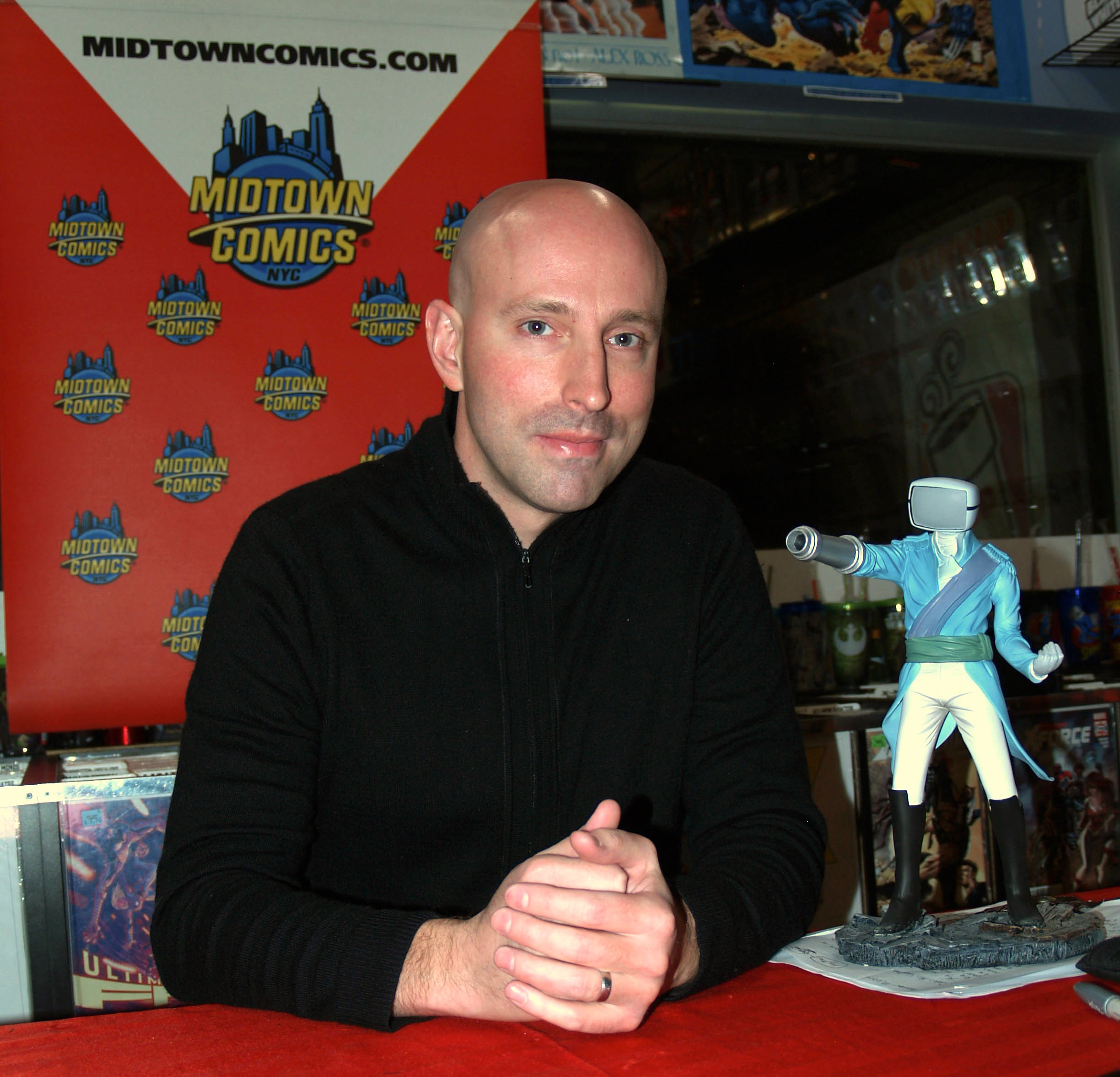 Comics and television writer Brian K. Vaughan signing copies of Saga Volume 4 and Saga Deluxe Volume 1 at a December 18, 2014 appearance at Midtown Comics Downtown in Manhattan. The figurine on the table beside him is a figurine of Prince Robot IV, one of the main antagonists of the series, which was created by a fan who gave it to him as a gift at the signing. This photo was created by Luigi Novi. It is not in the public domain, and use of this file outside of the licensing terms is a copyright violation.